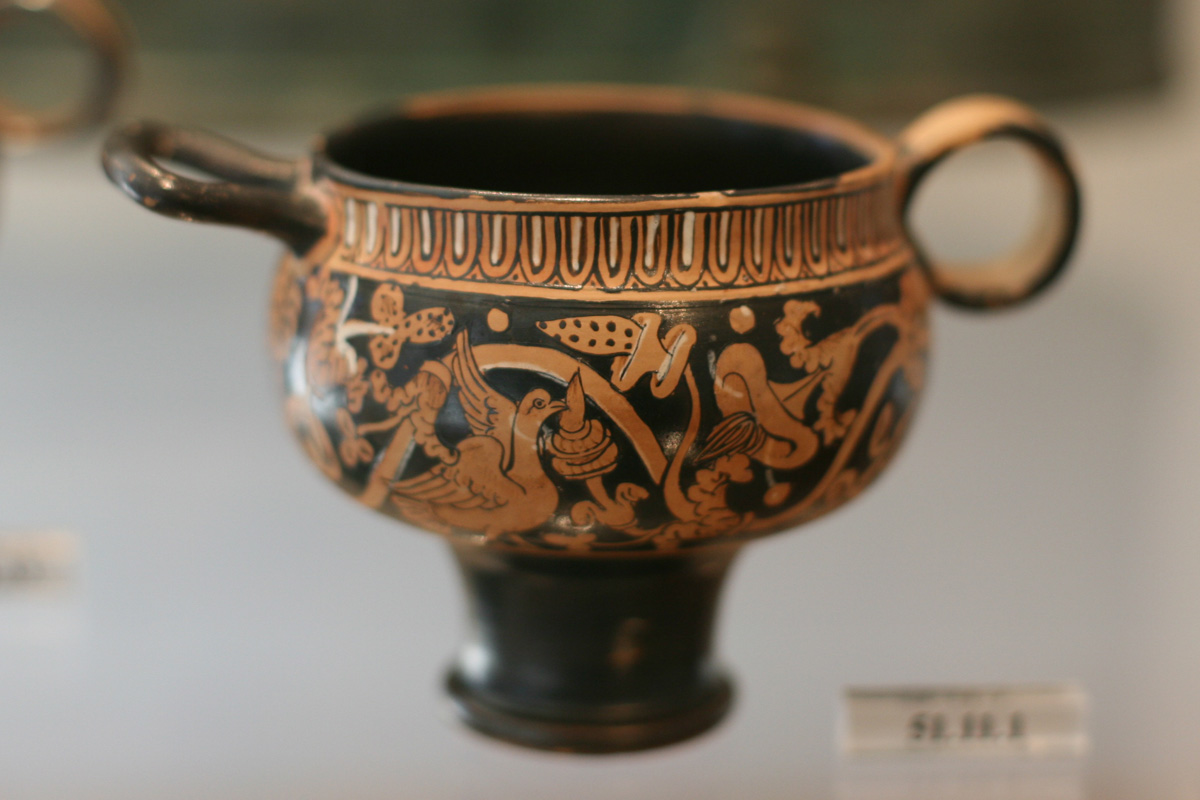 Etruscan red-figure skyphos.